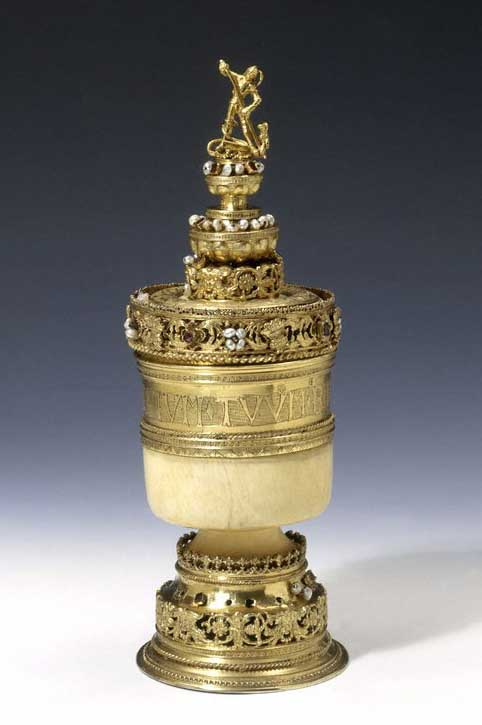 The Howard 'Grace' Cup, 1525-1526 V&A Museum no. M.2680:1, 2-1931 Techniques - Turned elephant ivory bowl, with silver-gilt mounts set with gemstones and pearls Place - London, England Dimensions - Height 27.3 cm